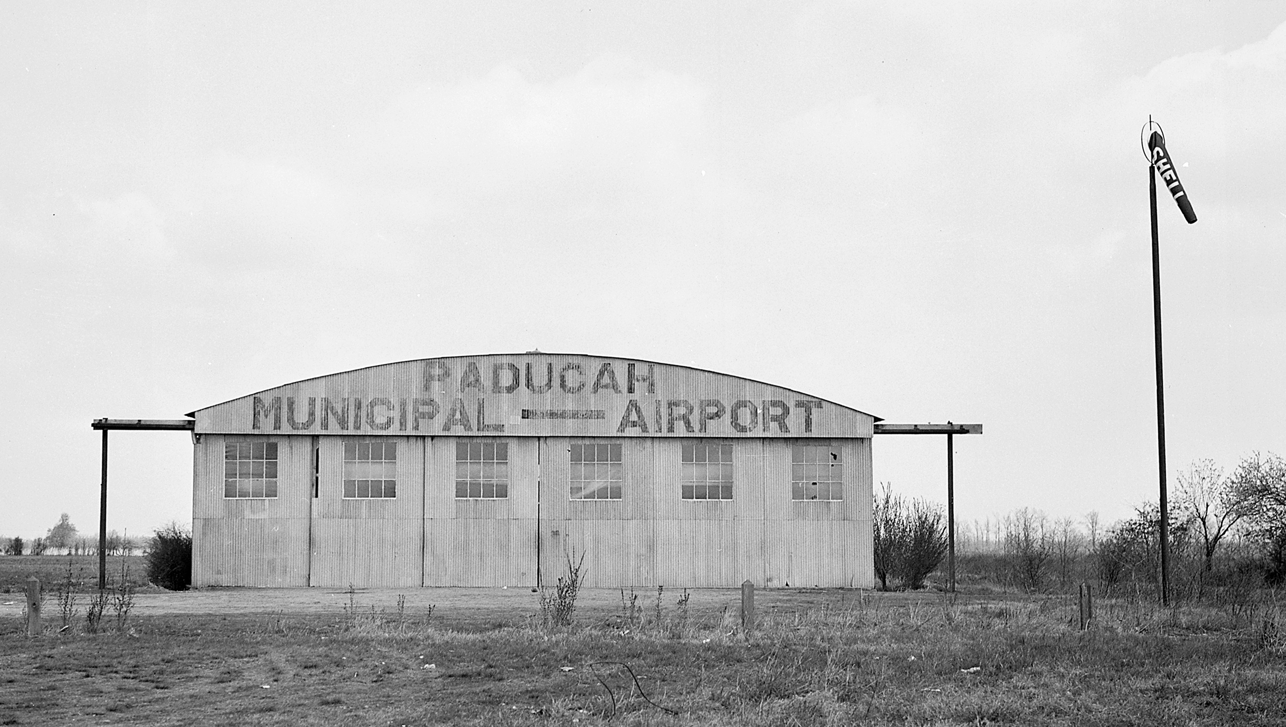 Restoration of National Archives file: 280811